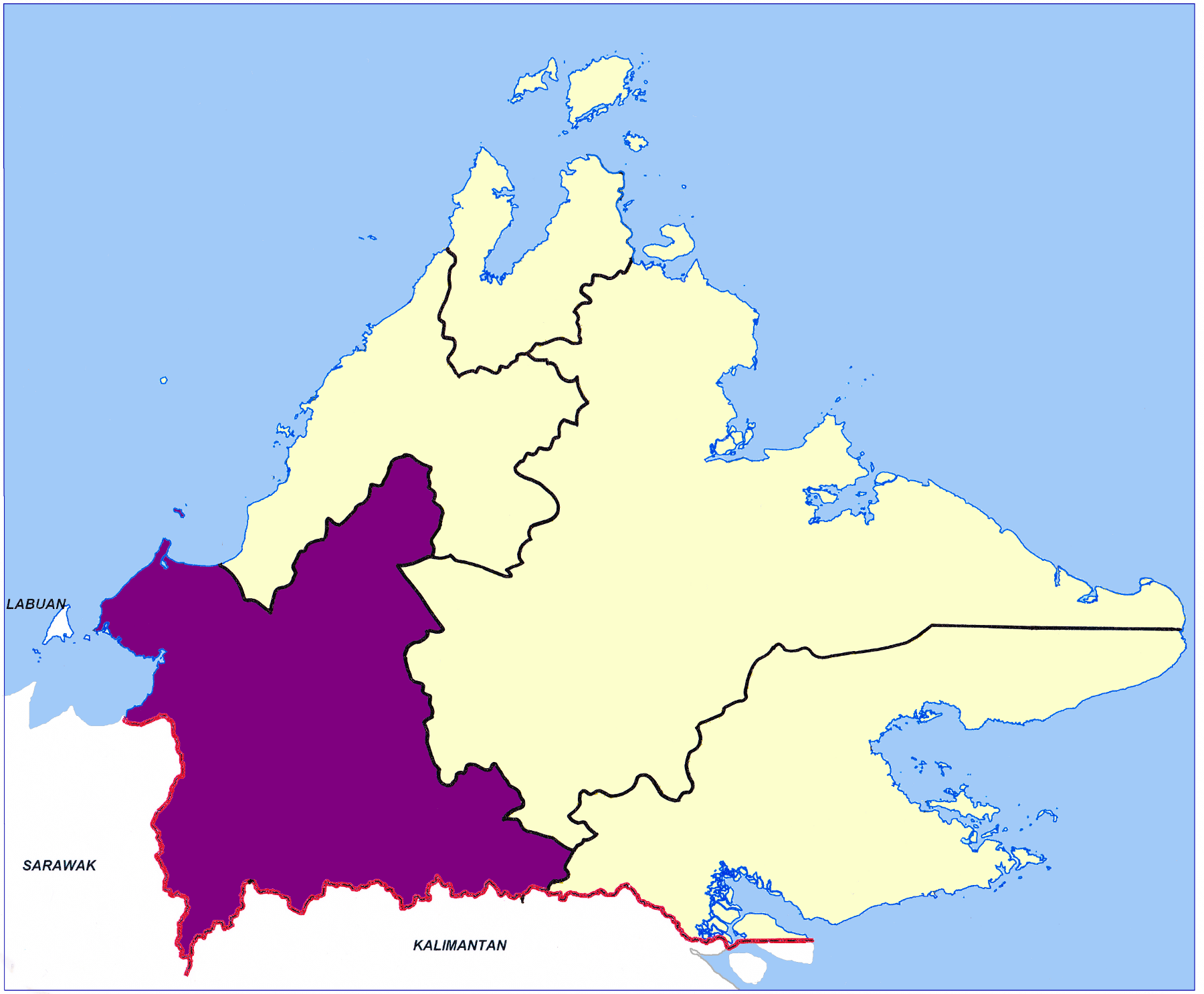 Sabah: Area covered by the Interior Division